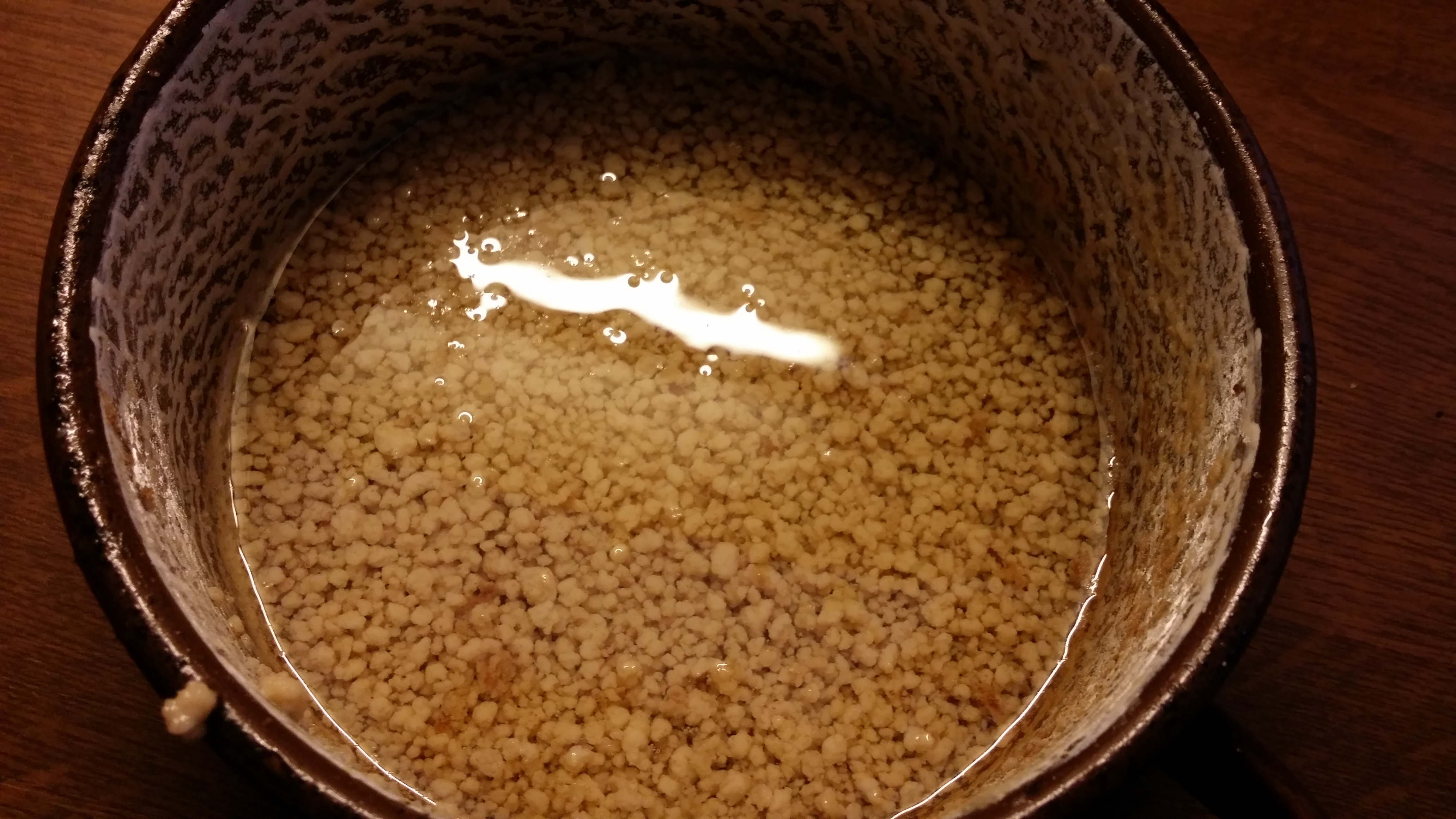 fried sour cream from Hungarian cuisine.